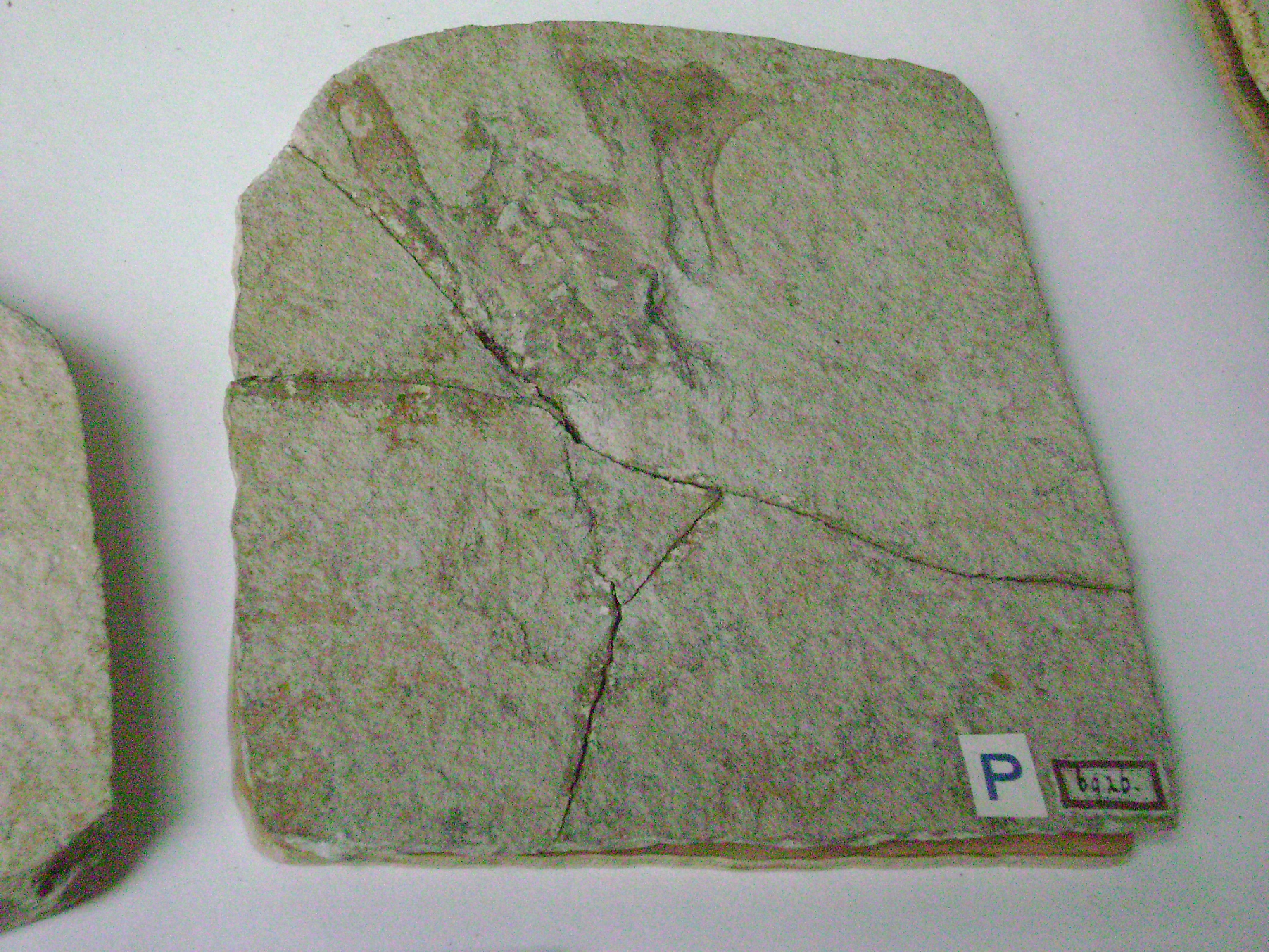 Counterslab of Pterodactylus grandipelvis in Teylers Museum, Haarlem